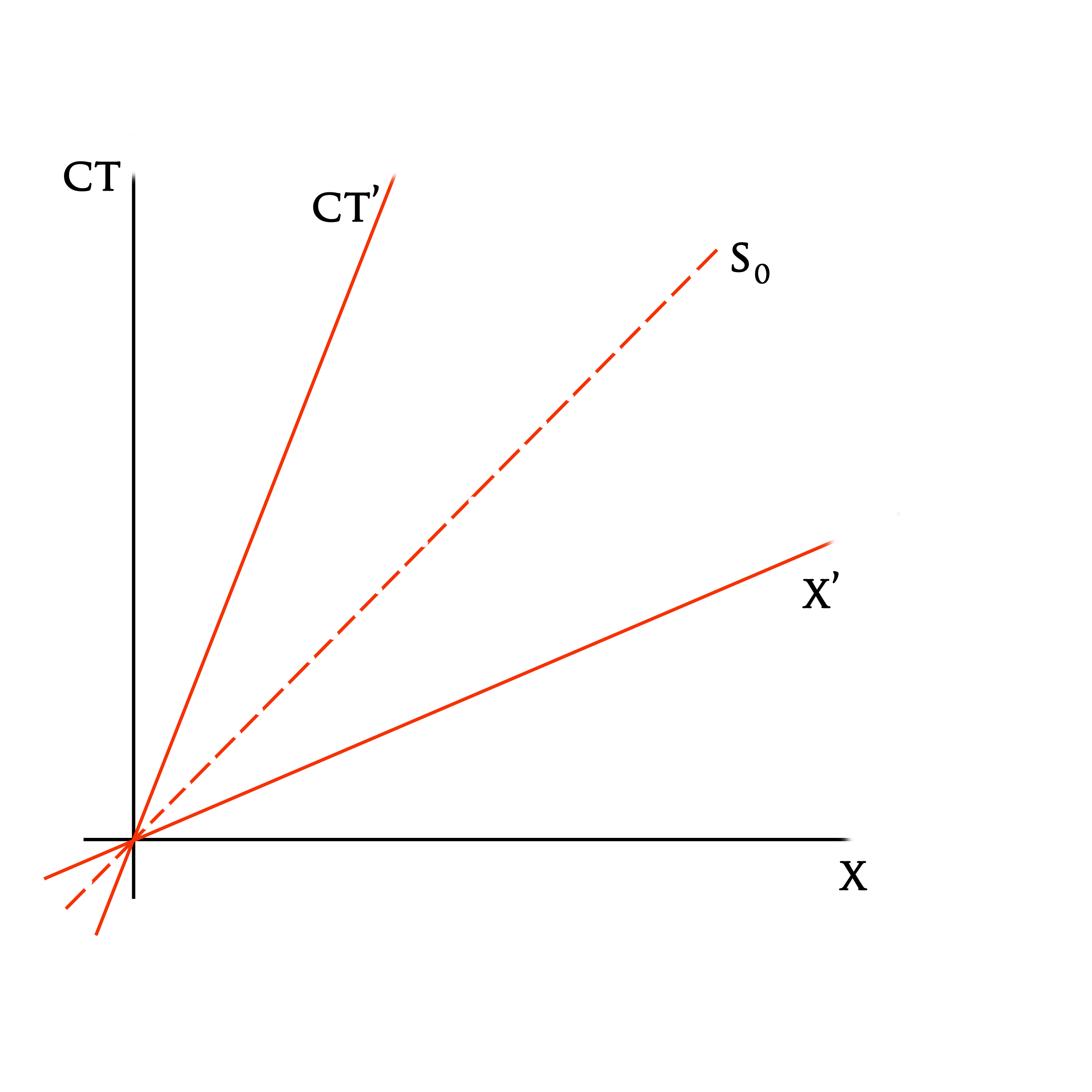 space-time diagram. frame of reference